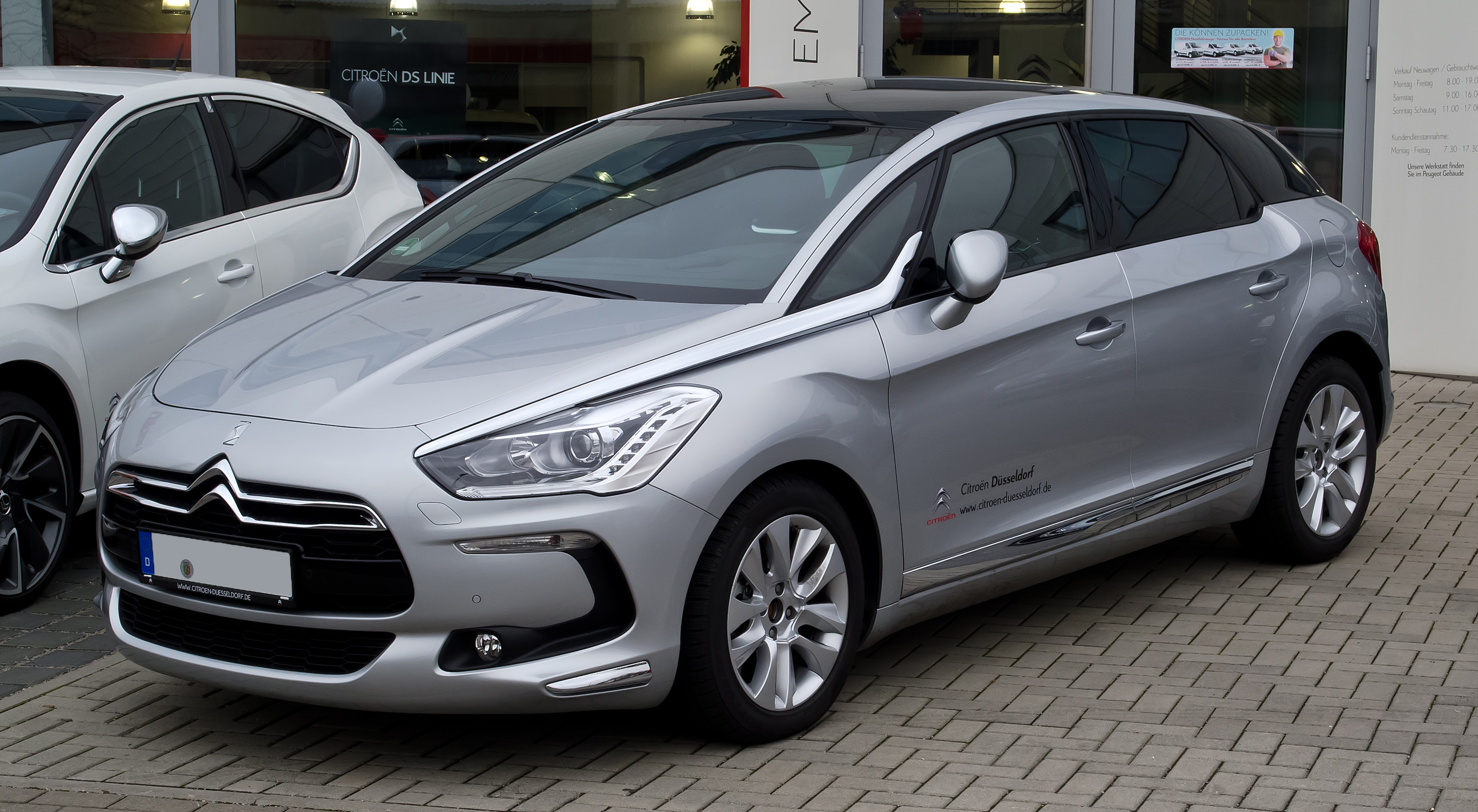 Citroën DS5 HDi 165 SoChic